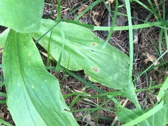 The smut fungi Entyloma arnicale on Arnica montana